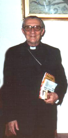 Miguel Maria Giambelli, B., Bishop Emeritus of Bragança do Parà